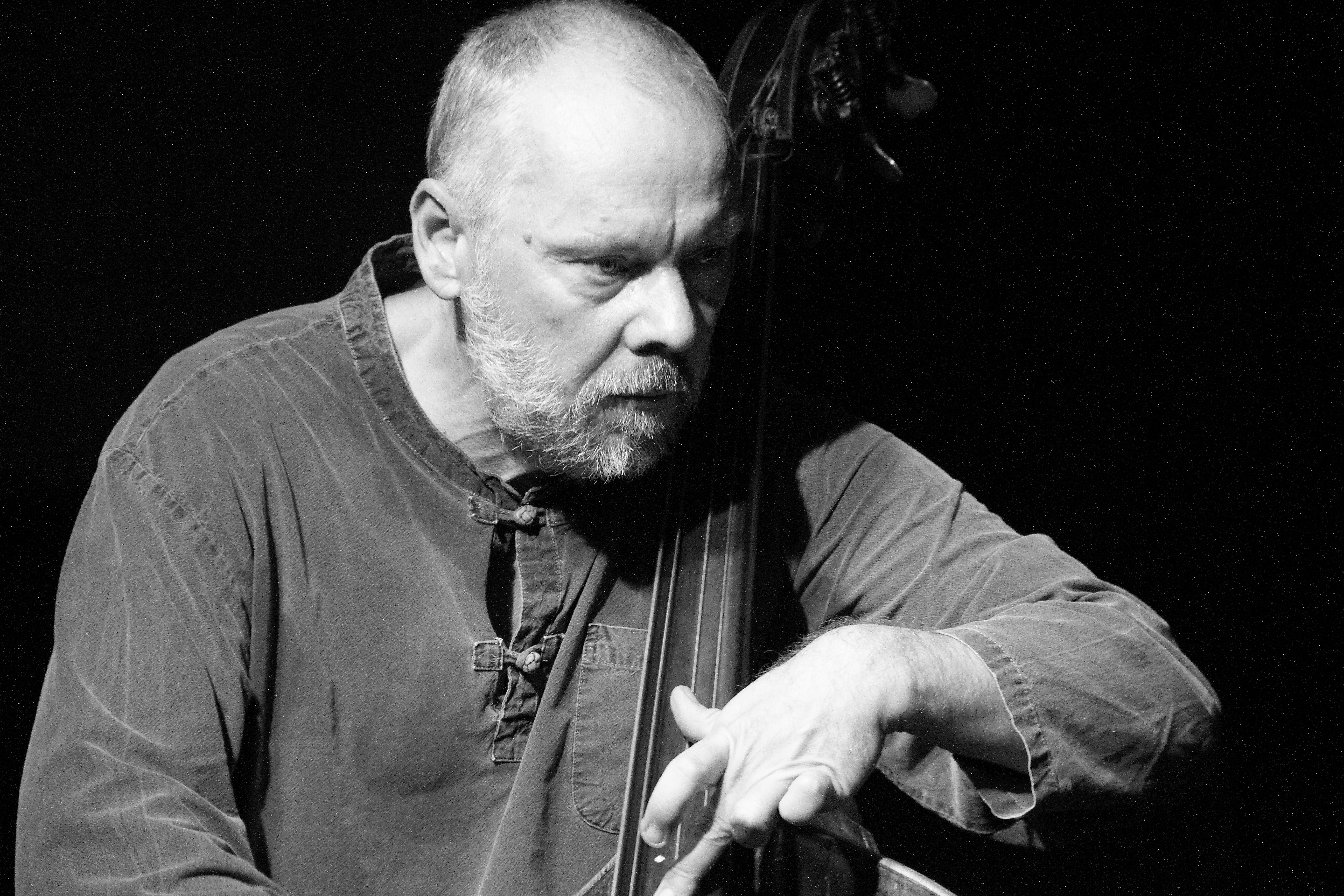 Conny Bauer (tb), Matthias Bauer (db) and Dag Magnus Narvesen (dr) in concert at Club W71, Weikersheim.